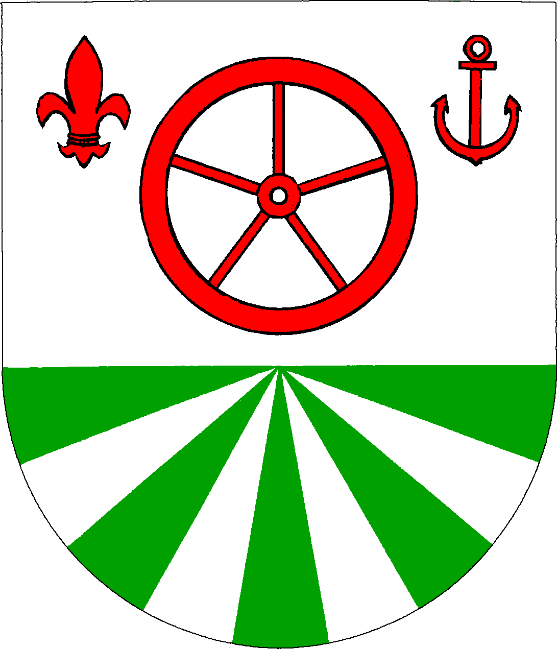 Coat of arms of the former Amt (county) Kirchspielslandgemeinde Heide-Land in Schleswig-Holstein, Germany.